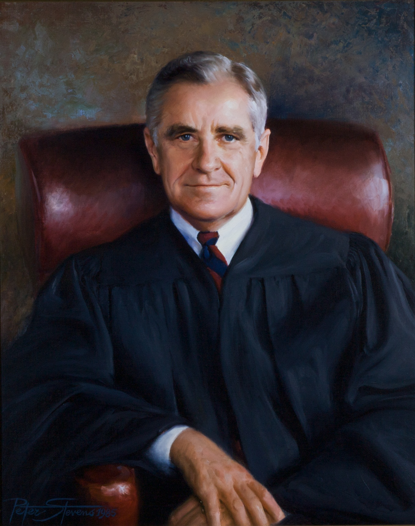 Oil on canvas of Chief Justice of the Supreme Court of Virginia, Harry Lee Carrico